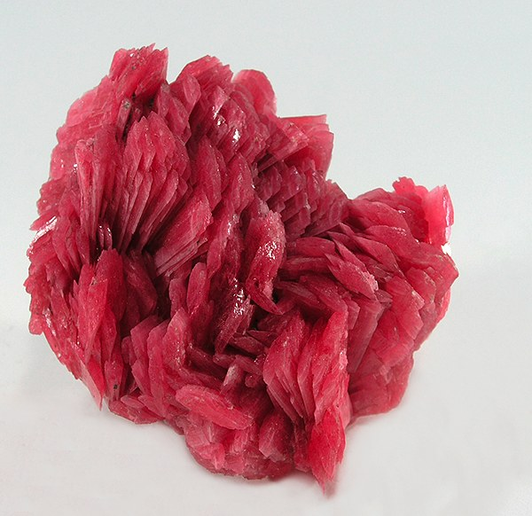 Rhodonite Locality: Chiurucu Mine (Chiurucu prospect), Dos de Mayo Province, Huánuco Department, Peru (Locality at ) Size: large cabinet, 6 x 5.7 x 3.5 cm Rhodonite (illustrated 3 TIMES!) A superb and colorful specimen with unusually good aesthetics for this material - most from the find are rather more jumbly and as they grew in thick aggregates along the pocket wall many have peripheral contact damage that detracts. This one, with its roseate form, has great 3-dimensionality that enhances the color and the sharp bladed form of the crystals. This is from the a small pocket hit in 1991, which to this day remains the standard for quality from the locality despite subsequent finds in the late 1990s of much smaller, less robust, less well crystallized, and less colorful crystals. Many people consider these, along with the Australian rhodonites of gem quality and different form, to be the best in the world for the species. These great rhodonites came out ONCE in all the time mining has gone on for specimens in Peru, as a second find around 1998 paled in consequence. Few will be on the market now, as they can only come as collections are recycled. It is truly one of the most collectible and colorful of Peruvian minerals as mentioned in a recent column of CONNOSSIEUR'S CHOICE where this particular specimen was illustrated as well; but more than that is just a damned impressive rhodonite from ANY locale. 6 x 5.7 x 3.5 cm